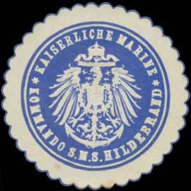 Sealing stamp Title: K. Marine Kommando S.M.S. Hildebrand Description: Schiff Place: size: cm